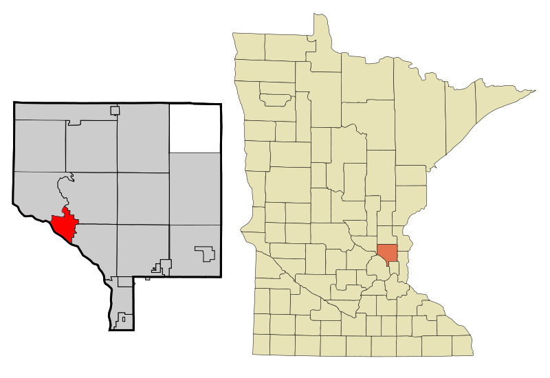 This map shows the incorporated and unincorporated areas in Anoka County, highlighting Anoka in red. This file has been updated to reflect the recent incorporation of new municipalities.